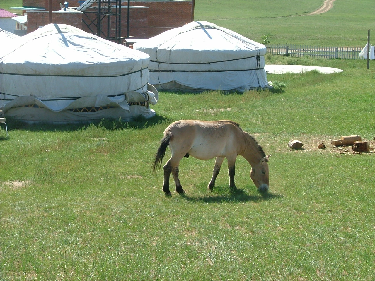 Takhi (Przhevalsky Horse) at Hustai National Park